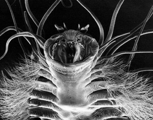 Ice Worm ; Source ; Ice Worm Photo courtesy of NASA JPL